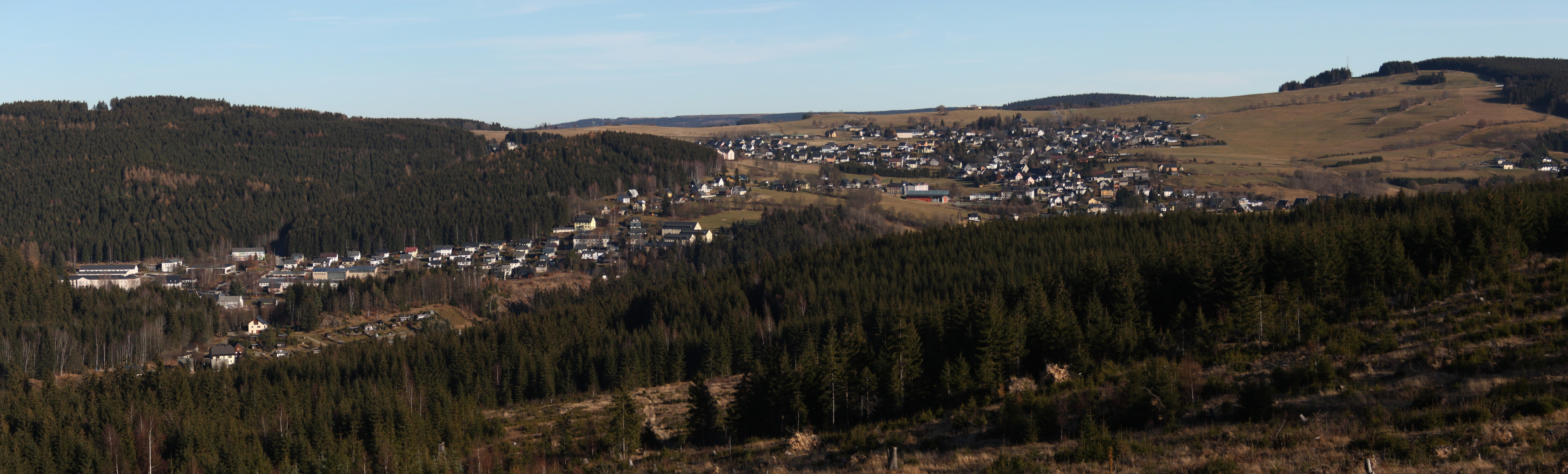 Panoramic view of Breitenbrunn/Erzgeb.